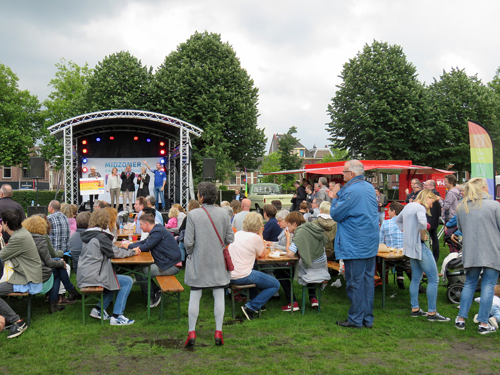 Impression of the gay culture festival Midzomergracht, which is held anually in the city of Utrecht. Here the final day of the 2016 edition on June 26.